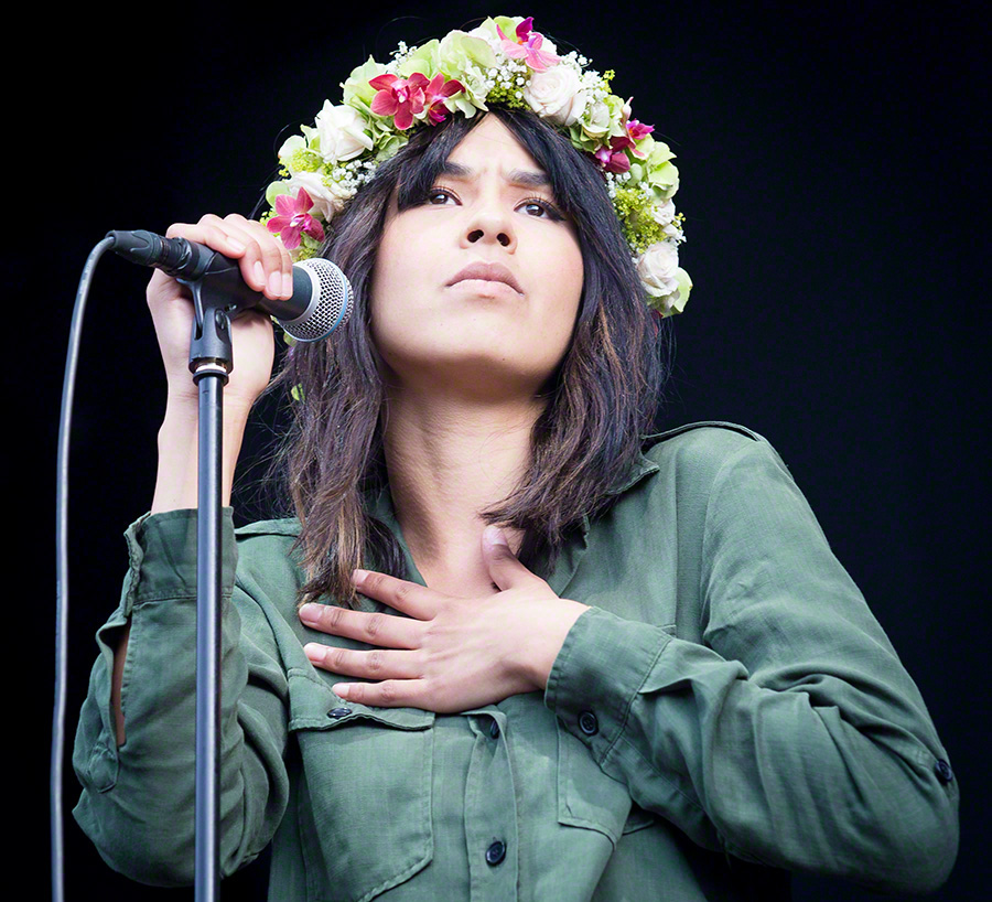 Maria Mena at the main stage during Stavernfestivalen in Stavern on 07. July 2016. Lineup:Maria Mena (vocal)Unidentified (guitar)Unidentified (bass)Unidentified (keyboard)Unidentified (keyboard)Unidentified (drums)